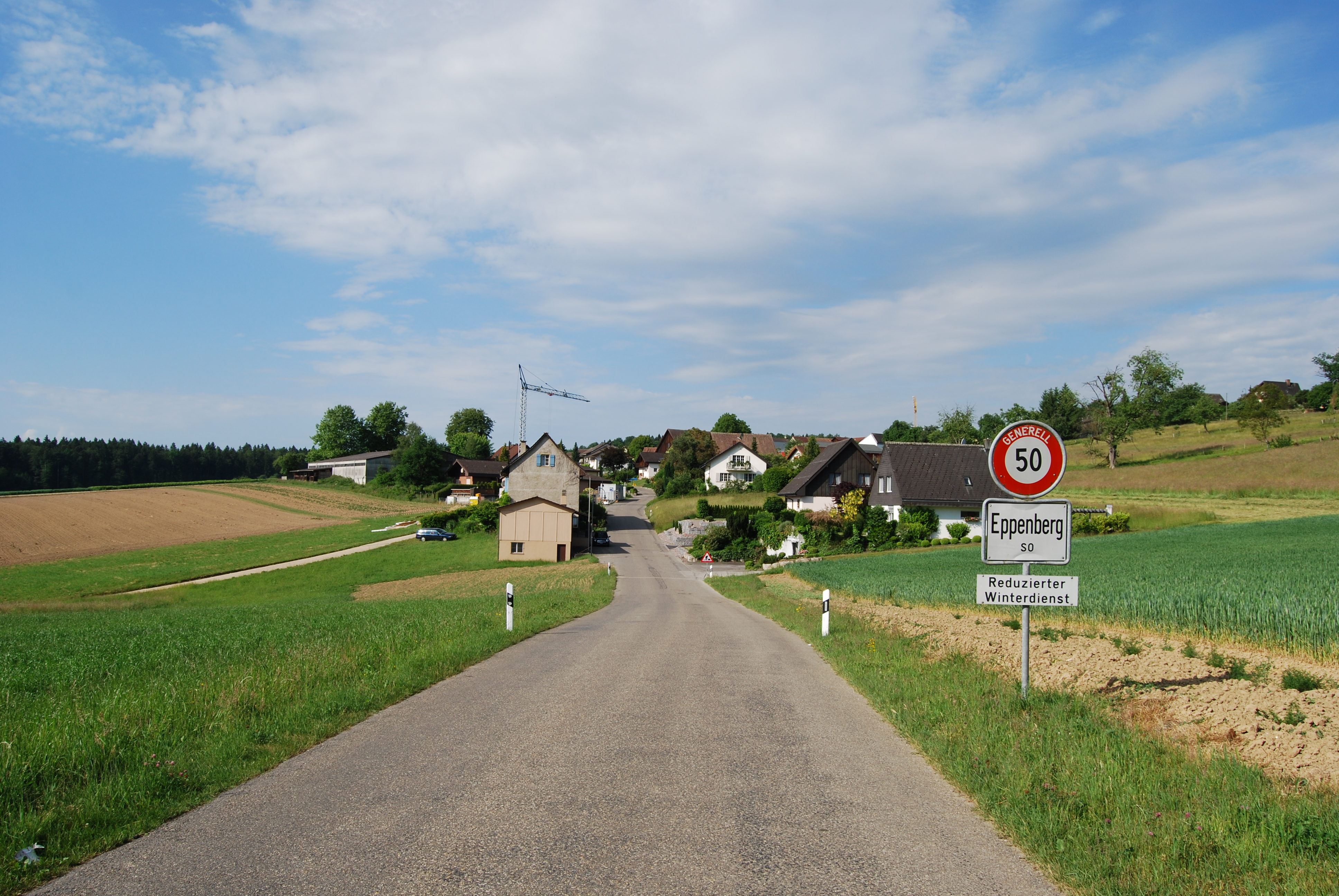 Eppenberg-Wöschnau, canton of Solothurn, Switzerland